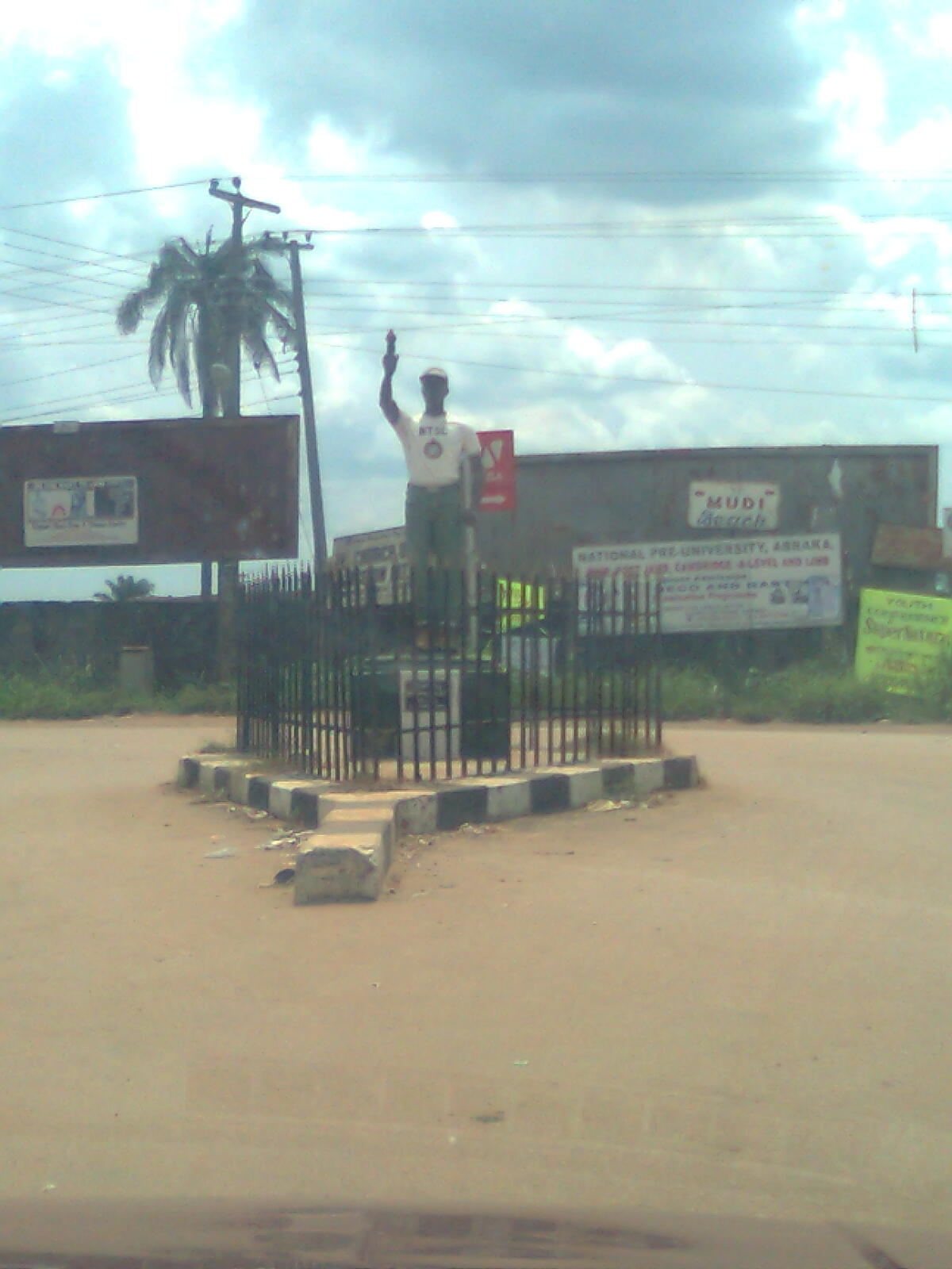 Abraka city center